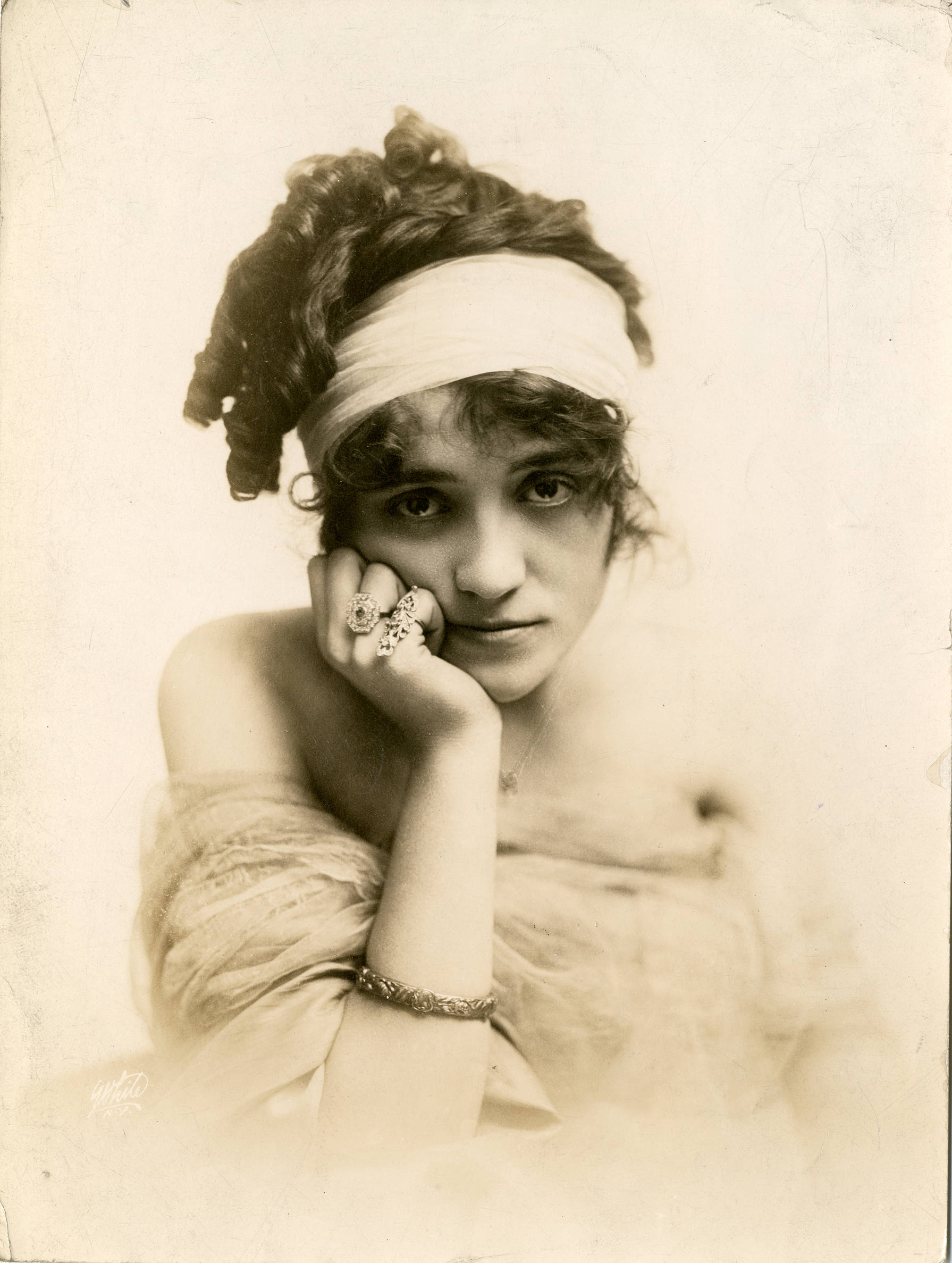 Stage actress Zoe Barnett. Subjects: actors